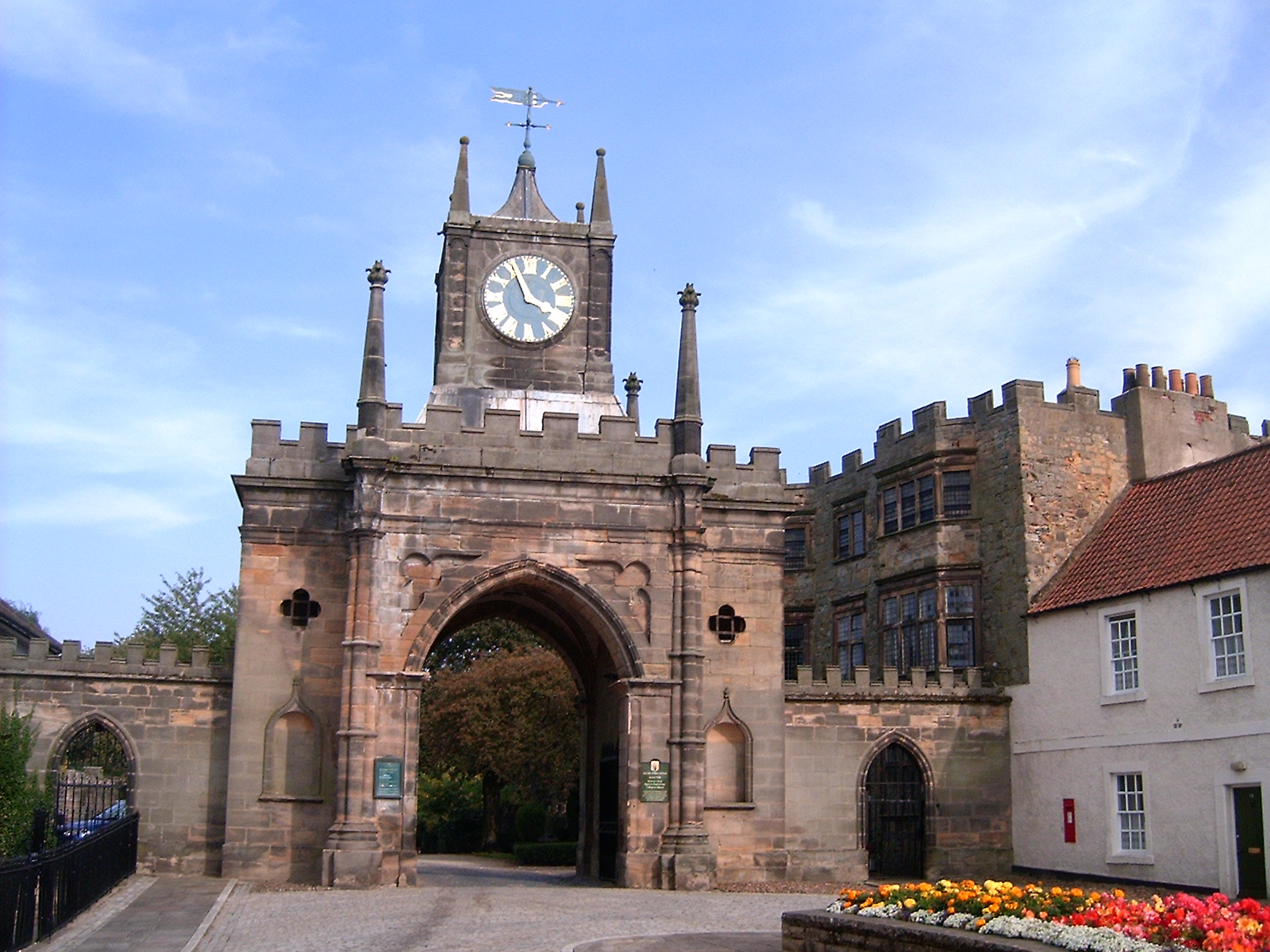 Gatehouse to the outer grounds of Auckland Castle — in County Durham.